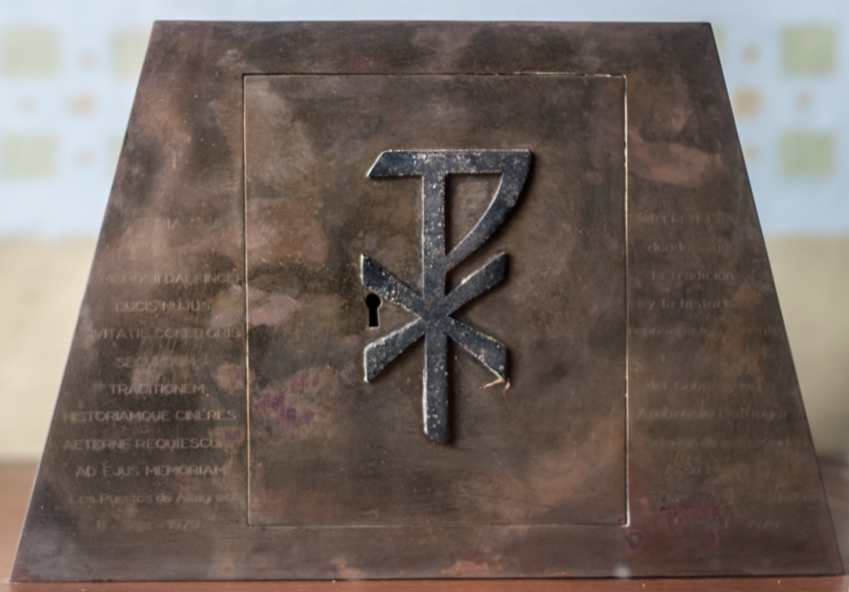 Box Ambrosio remains Alfinger